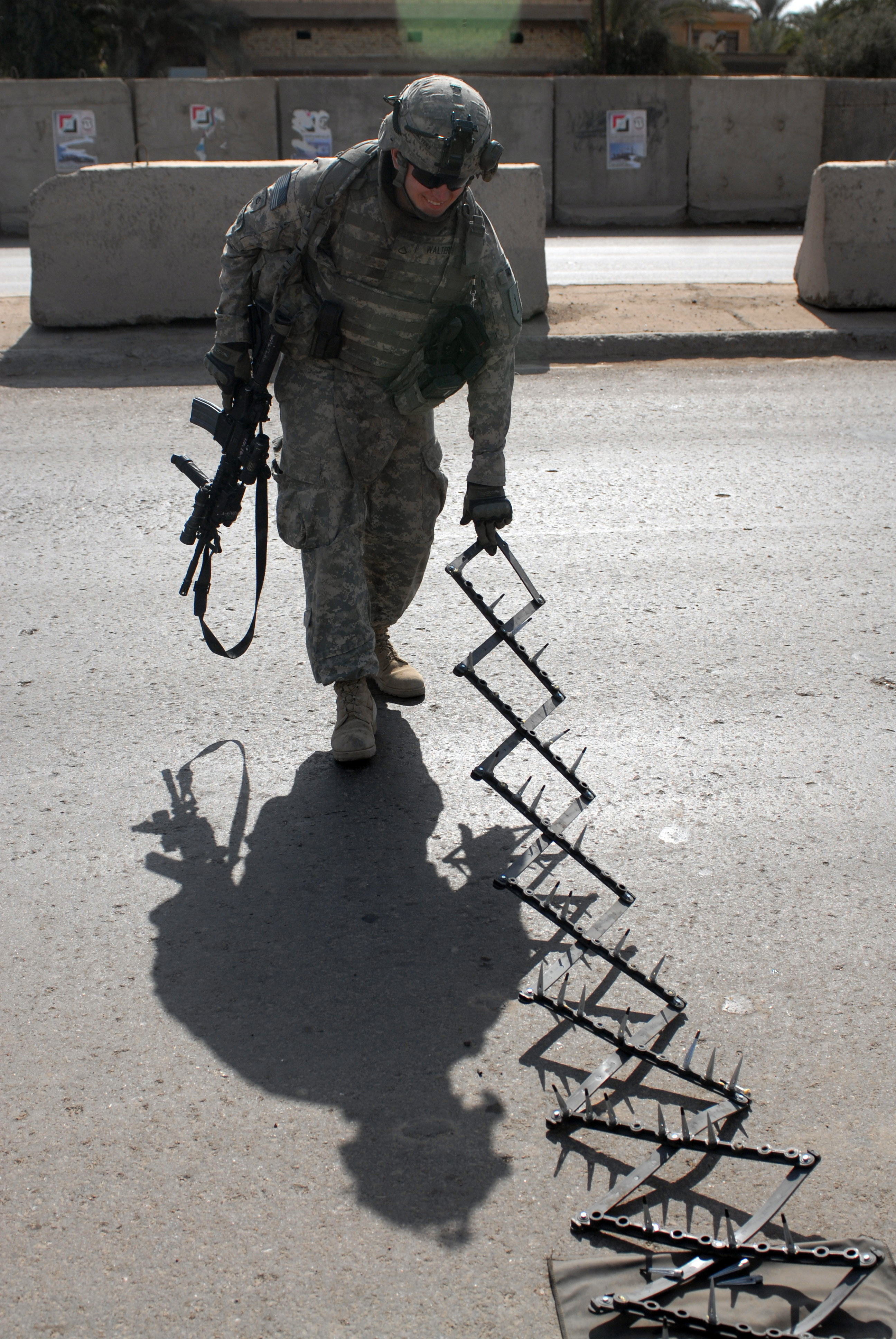 U.S. Army Pfc. Walters of the 2nd Brigade, 1st Infantry Division sets up a spike strip at a vehicle checkpoint in Ameriyah, Iraq, on 13 February 2009.